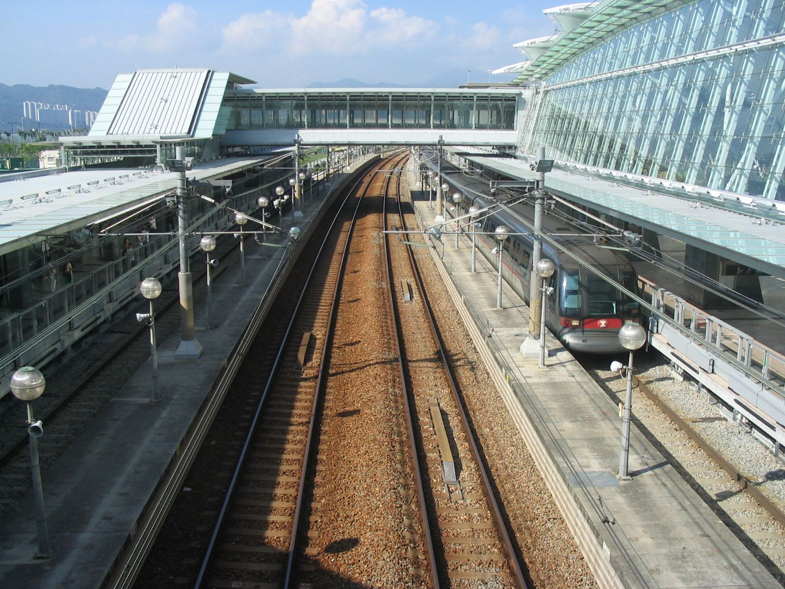 Sunny Bay Station, view towards Tsing Yi Station